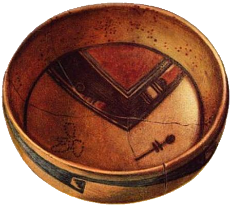 Bowl from the old Hopi village of Sikyátki (circa 1400-1625 A.D.), with dragonfly symbol.